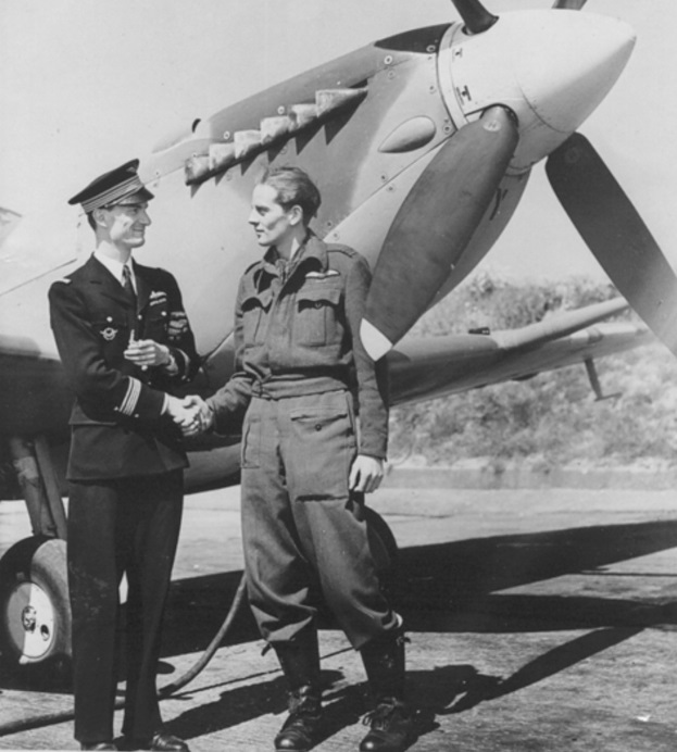 15 May 1943: Cdr Rene Mouchotte and Sqn Ldr Jack Charles who jointly shared the 999th and 1,000th aerial victories by aircraft based at RAF Biggin Hill.